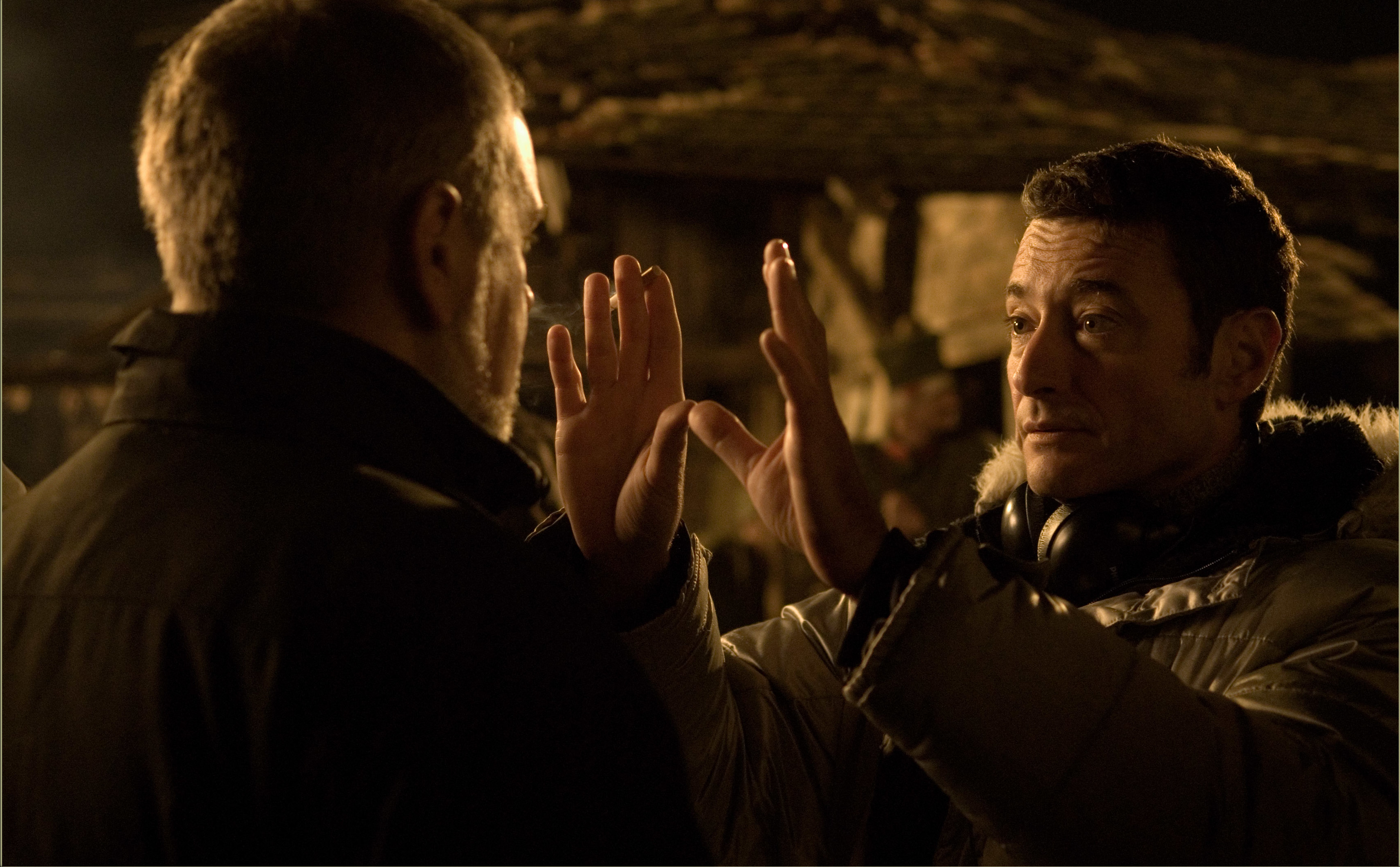 Srđan Dragojević (born 1963), Serbian film director and screenwriter.